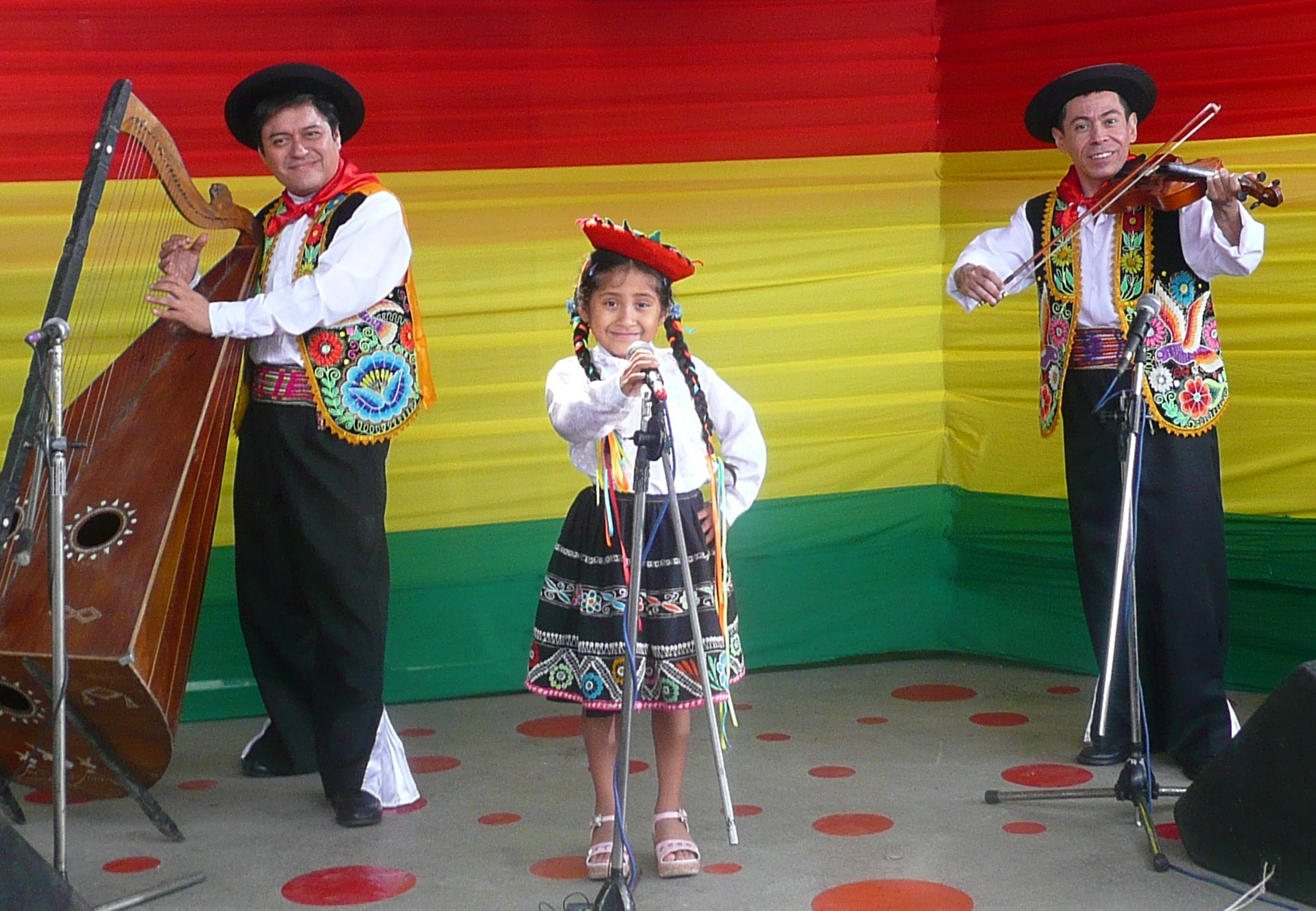 Alfredo Levano (Hilario), Sol Feedile Hipolito (Sally niña) y Oswaldo Salas (Pepito) preparandose para la grabacion de la miniserie peruana "Sally, la muñequita del pueblo"